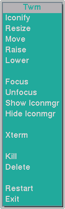 twn menu